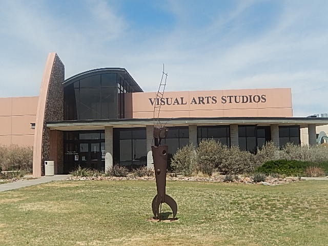 I took photo of Visual Arts Studios at UTPB in Odessa, TX, with Nikon camera.